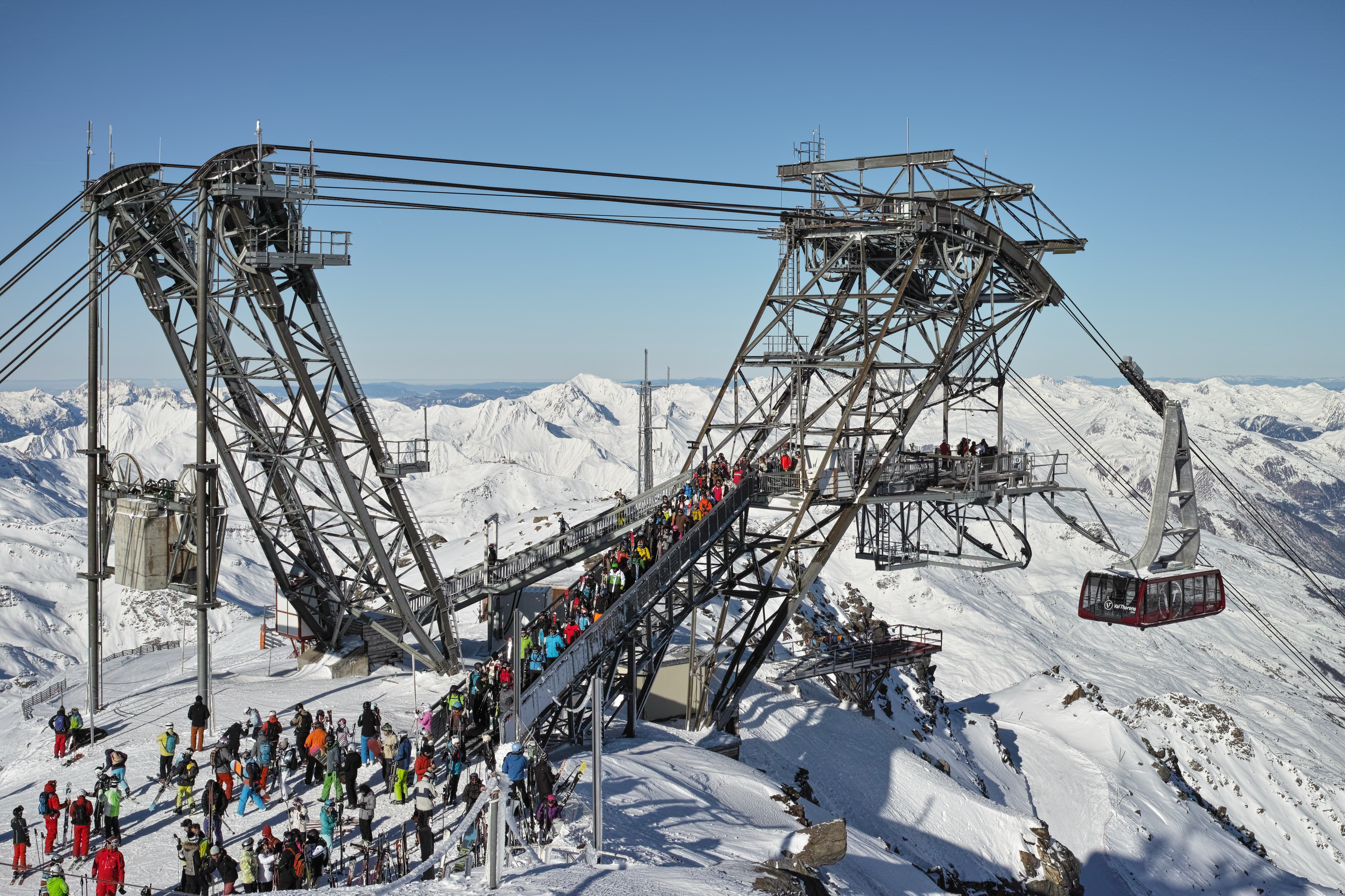 The top station on Cime de Caron in France from south-east on January 5, 2015.